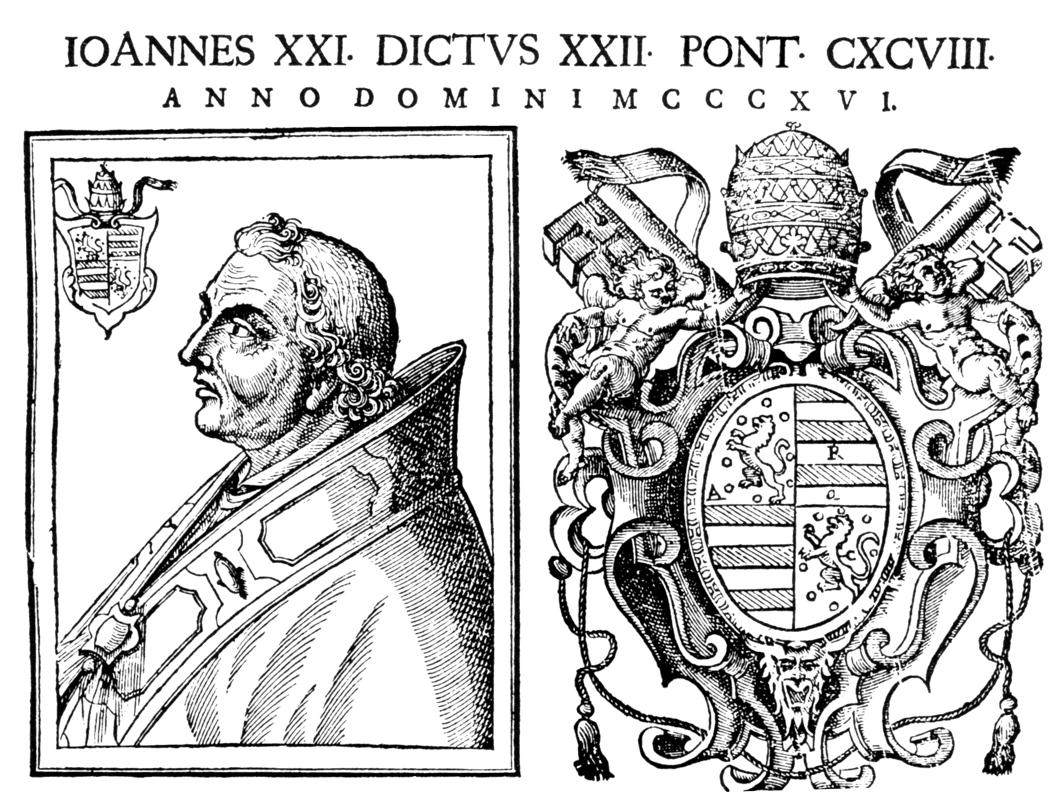 17th-century engraving of Pope John XXII.